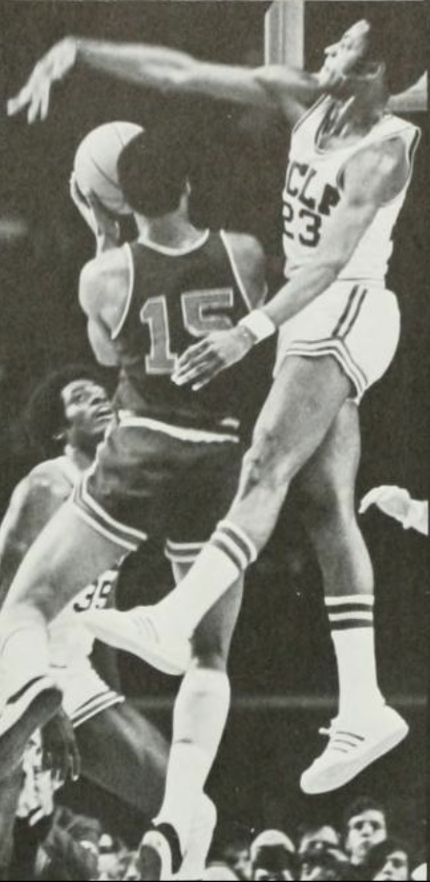 Kenny Booker (right) of UCLA in 1970–71